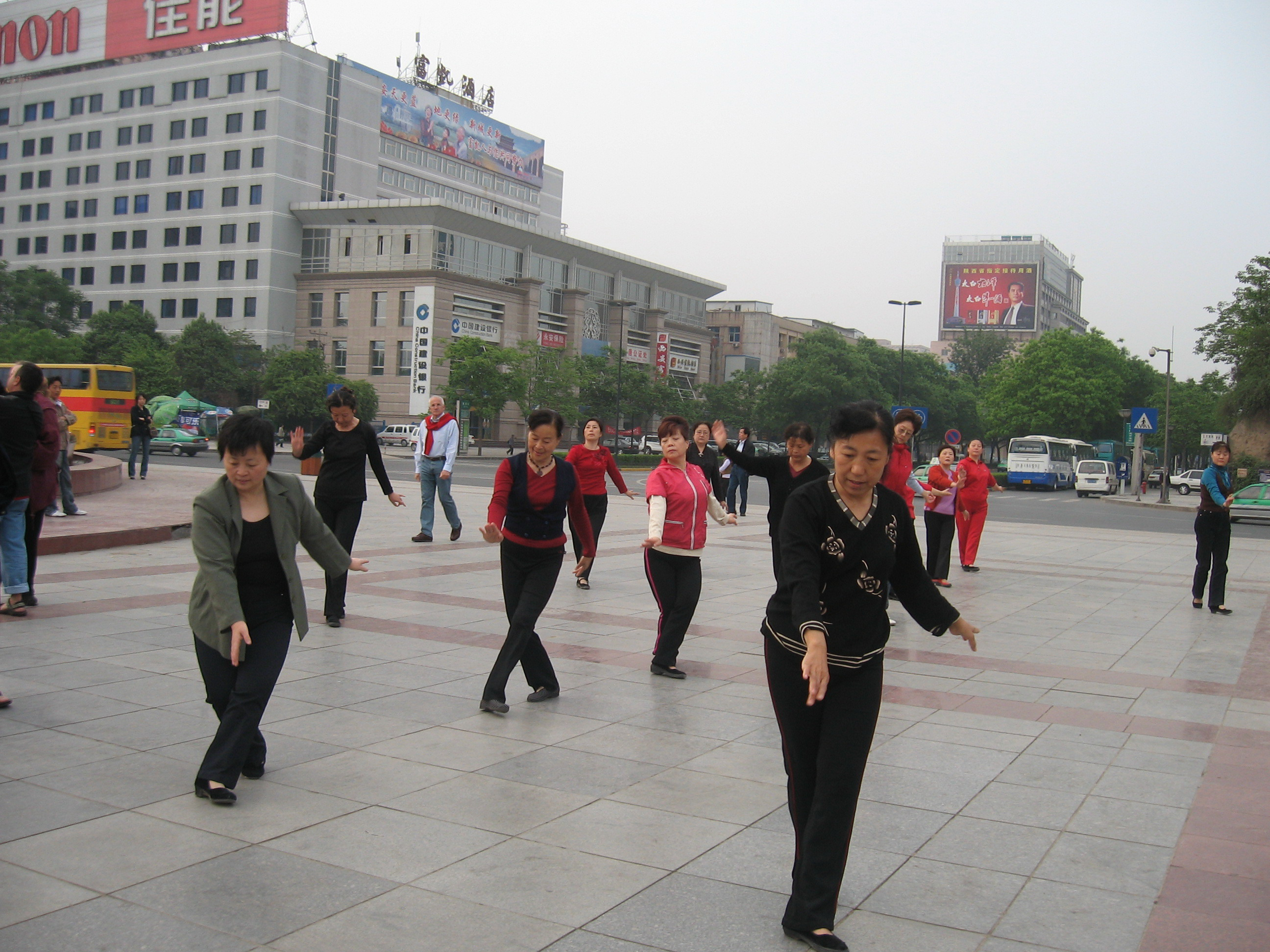 Tai Chi in the street, China, May 2007